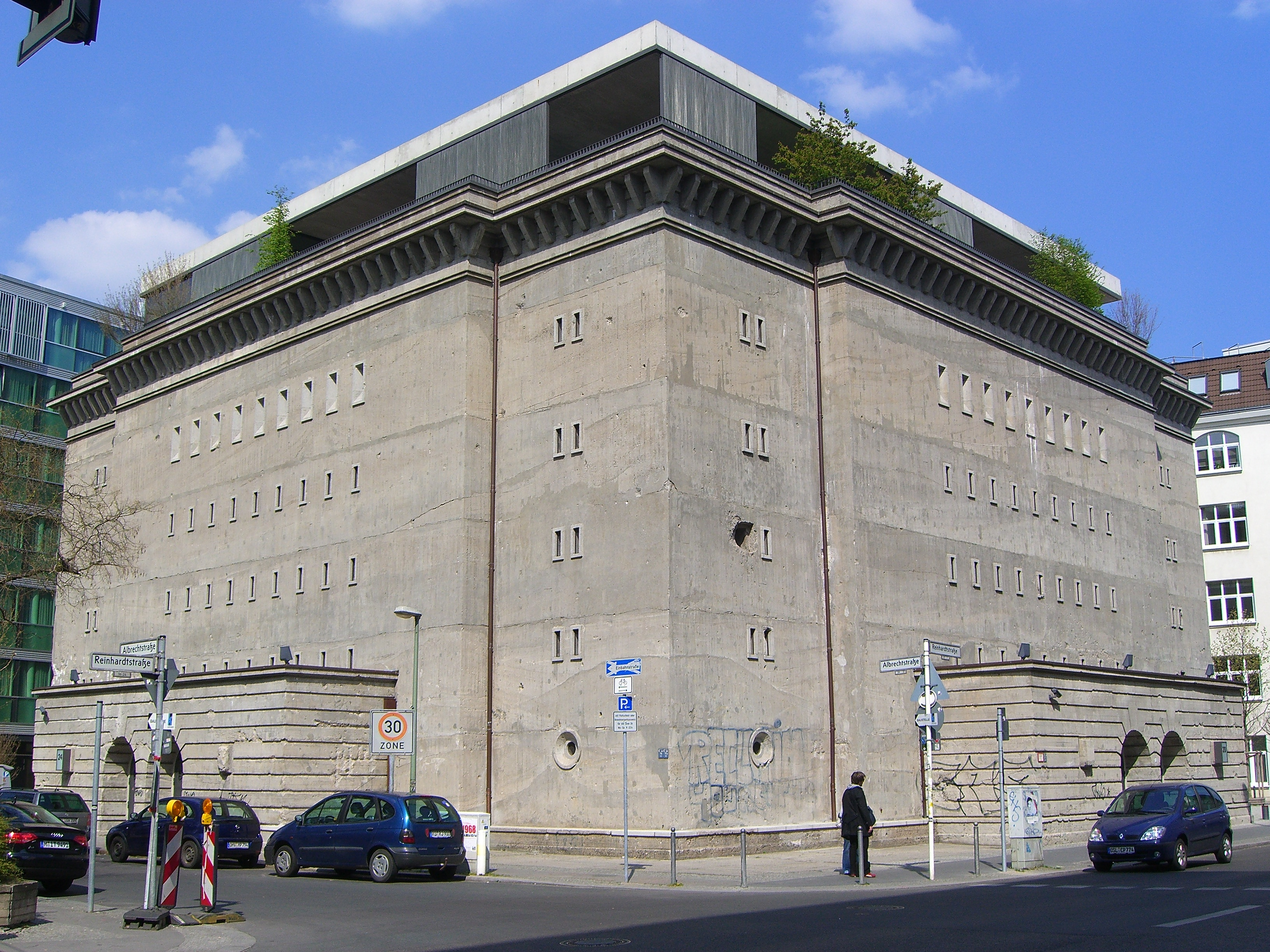 Air-raid shelter in Berlin at the Reinhardtstraße. At the present it is used as a private museum for contemporary art of art collector Christian Boros. On the top of the shelter is a reproduction of the Barcelona-Pavillion.